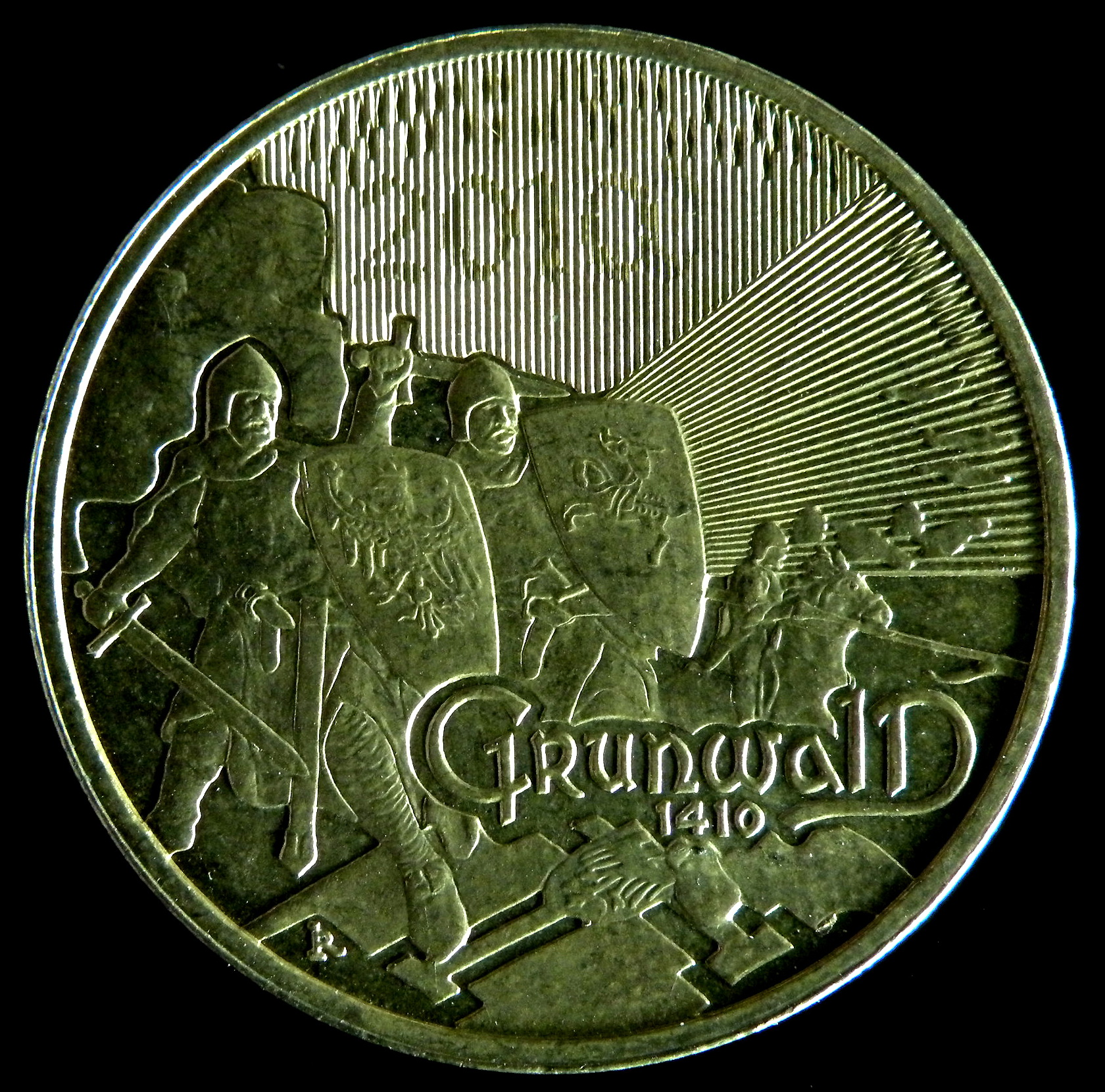 Hrunwald 2010,2 zl Беларуская (тарашкевіца): 2 злотыя, выпушчаныя ў гонар 600-ых угодкаў Грунвальду